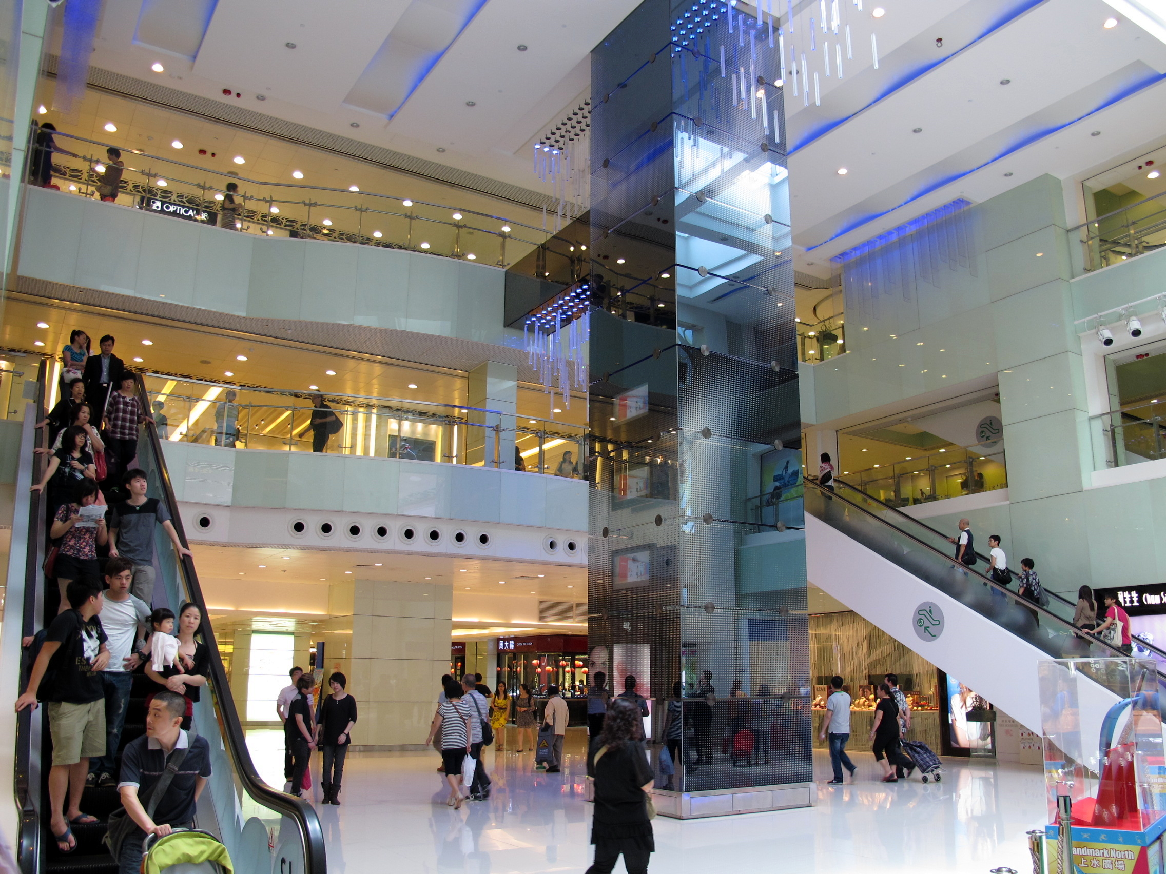 Landmark North Main Void 上水廣場中庭